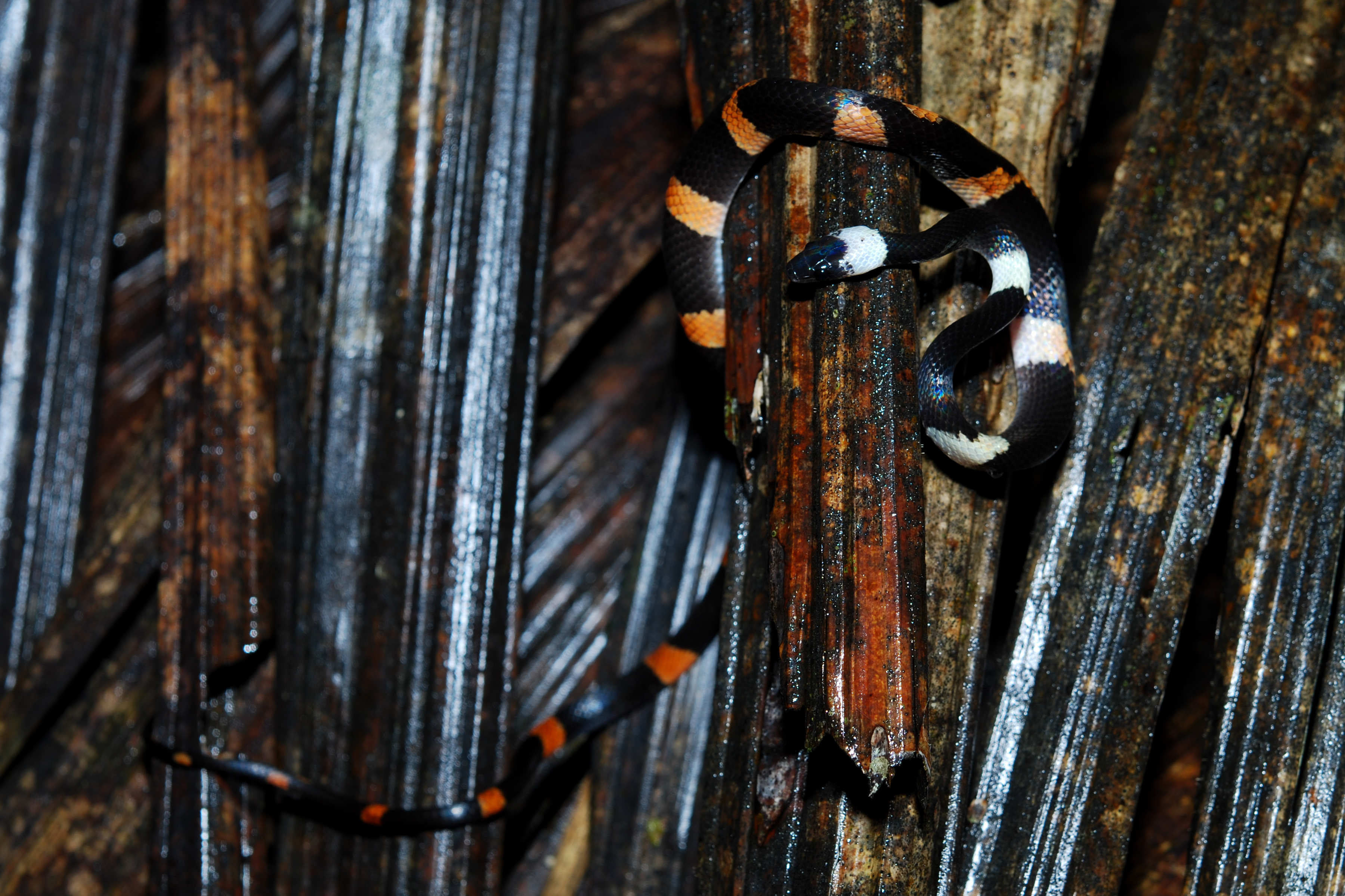 A False Coral at Yasuni National Park, Ecuador.